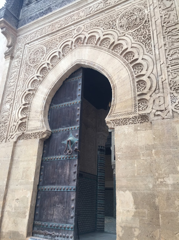 Main entrance to the Merinids Madrasa of Salé